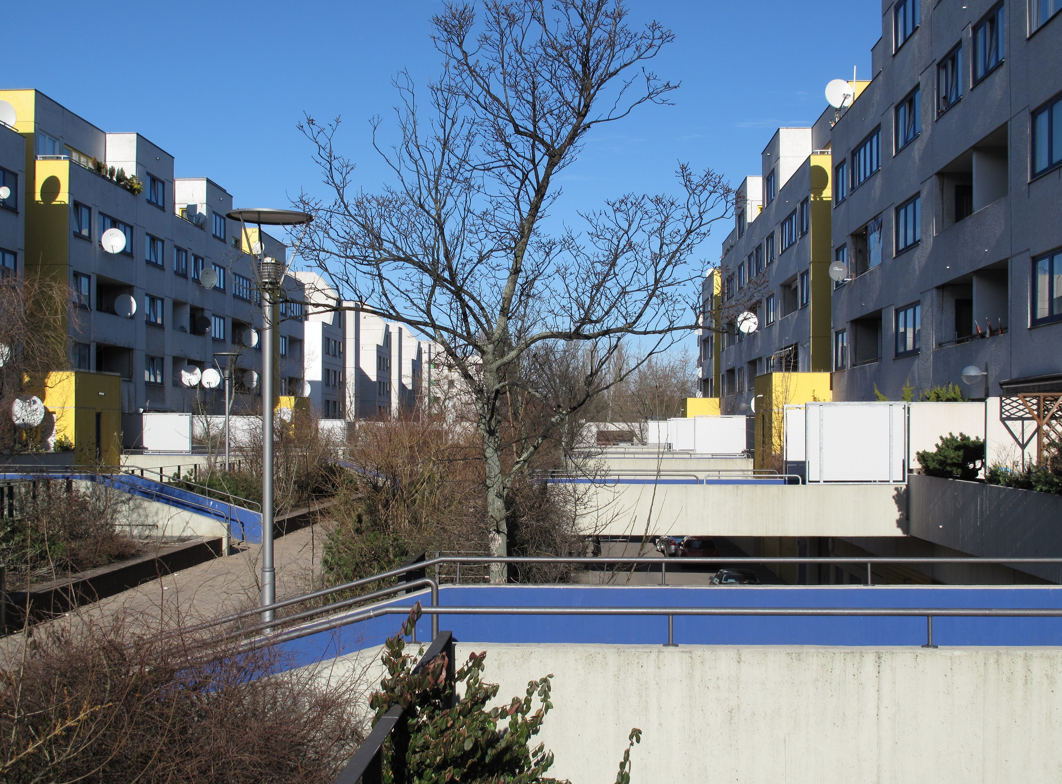 Northern deck of the Leo-Slezak-Straße in the High-Deck-Siedlung. The High-Deck-Siedlung is a housing estate in Berlin-Neukölln with ca. 6.000 inhabitants. The estate was built in the 1970s/1980s within the subsidized housing by the architects Rainer Oefelein and Bernhard Freund. Their innovative urban development concept counted on a structurally separation of pedestrians and traffic in opposition to Berlin's „urbanity through density“ conception (high-rise-estates) at that time. Above the streets spandrel-braced, green foot pathes (the High-Decks) connect the mainly five to six storied houses. Was the estate after it's construction regarded as the epitome of a tranquil and modern urban living at the green edge of West Berlin, it has evolved after the fall of Berlins Wall into a social hotspot. There was set up a neighbourhood management in 1999.